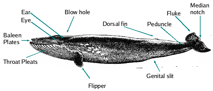 Illustration showing various parts of a Baleen Whale. A Blue Whale is shown.